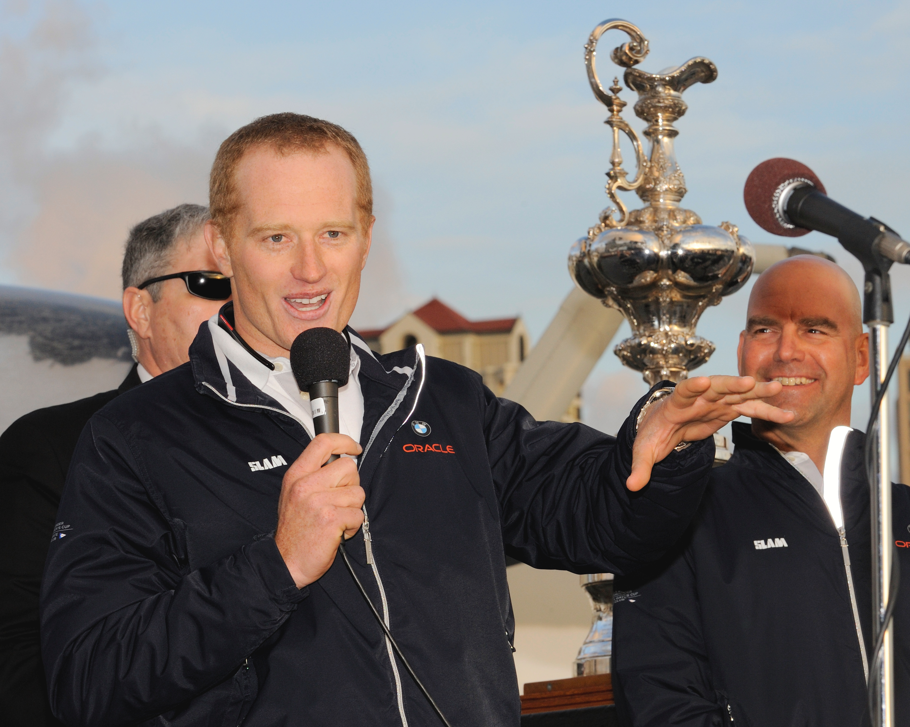 Skipper James Spithill fired up the crowd when he said he would push to have America's Cup 34 in San Diego. (Photo Courtesy: Colin McDonald)